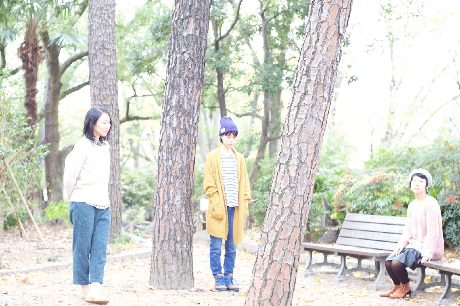 CRRUNCH profile photo